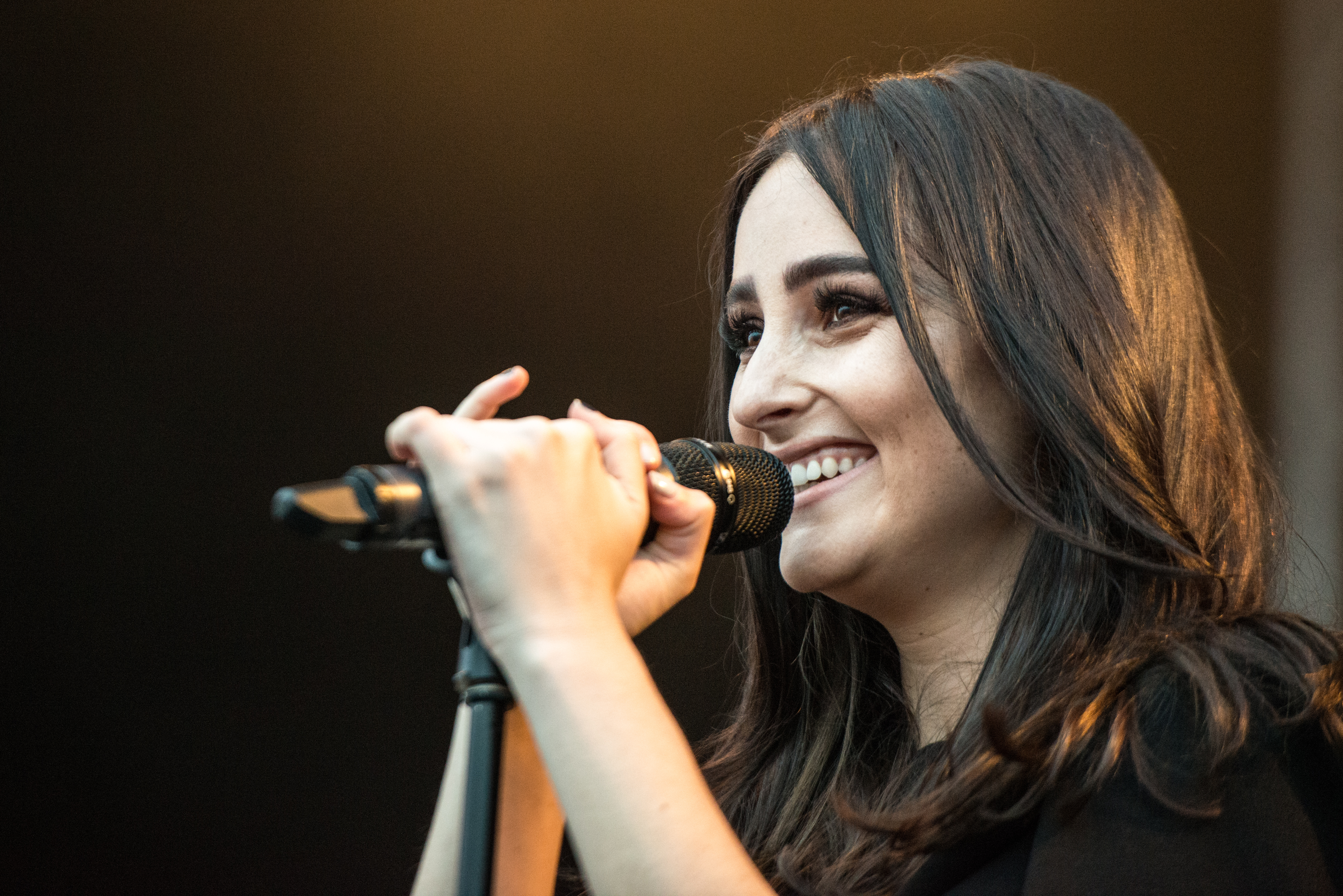 Banks performing on Apollo Stage at Roskilde Festival 2014 on the 3. of july 2014. Photo by Bill Ebbesen.